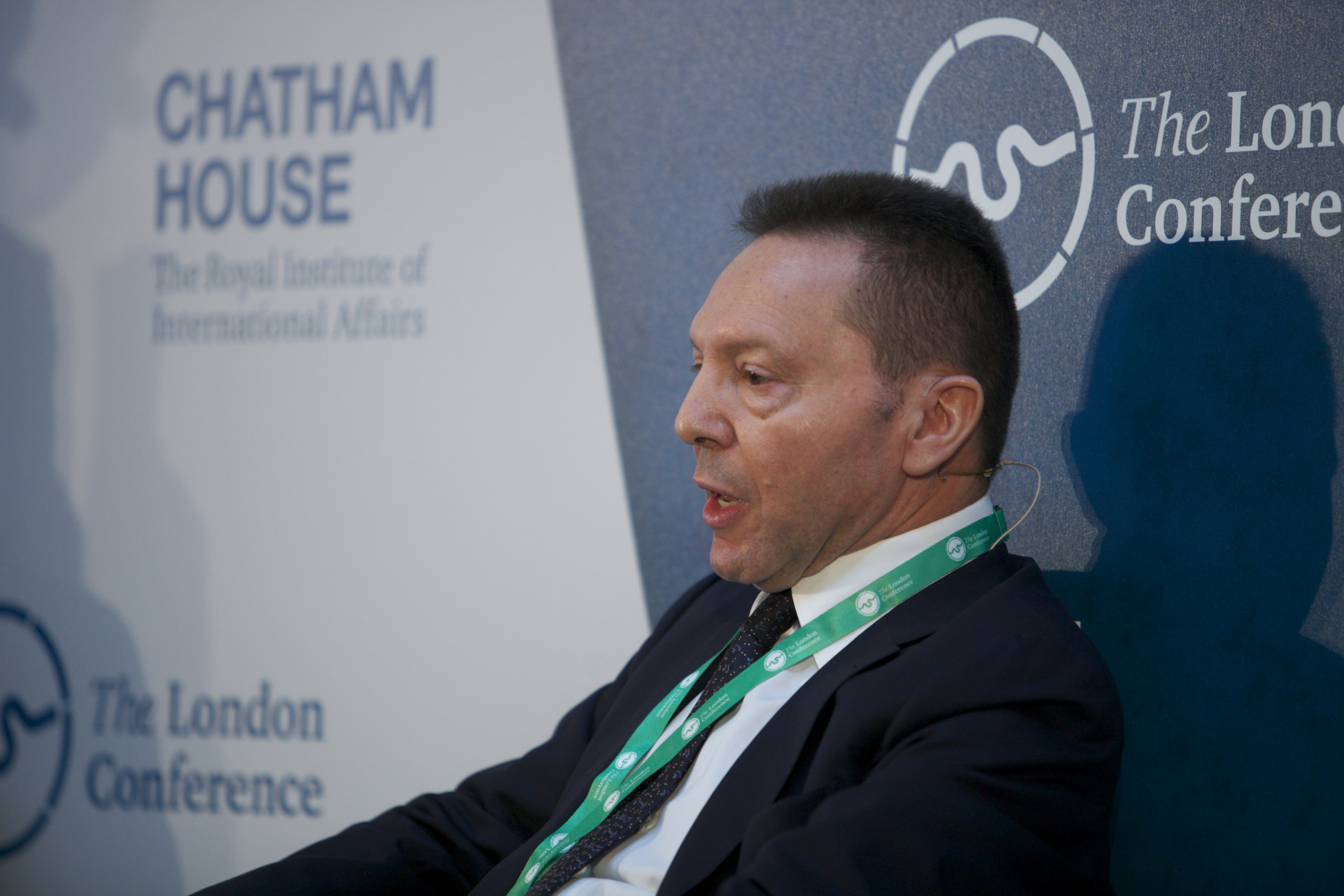 Yannis Stournaras, Governor, Bank of Greece; Minister of Finance, Greece (2012–14)